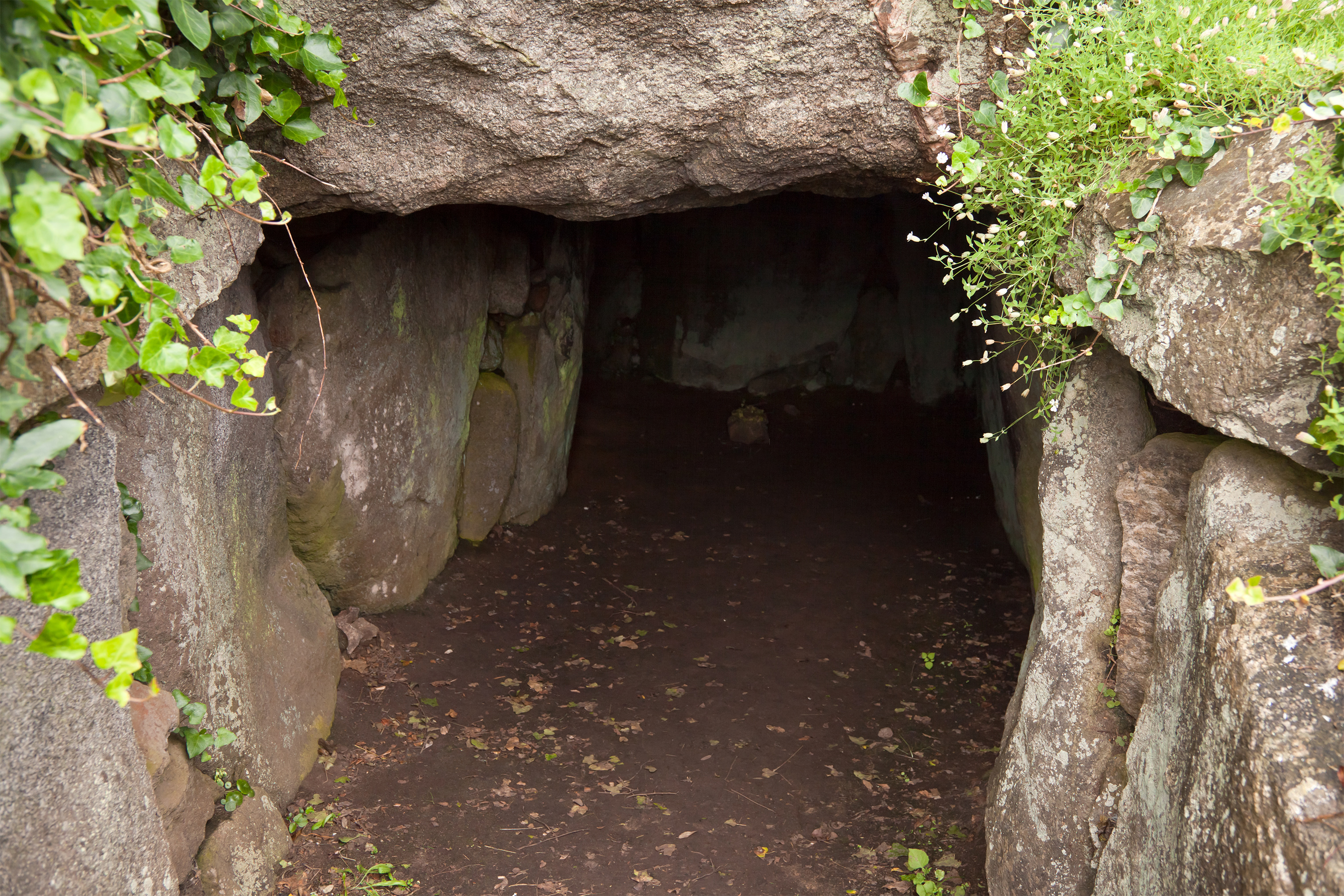 La Creux es Faies, prehistoric passage grave, Guernsey